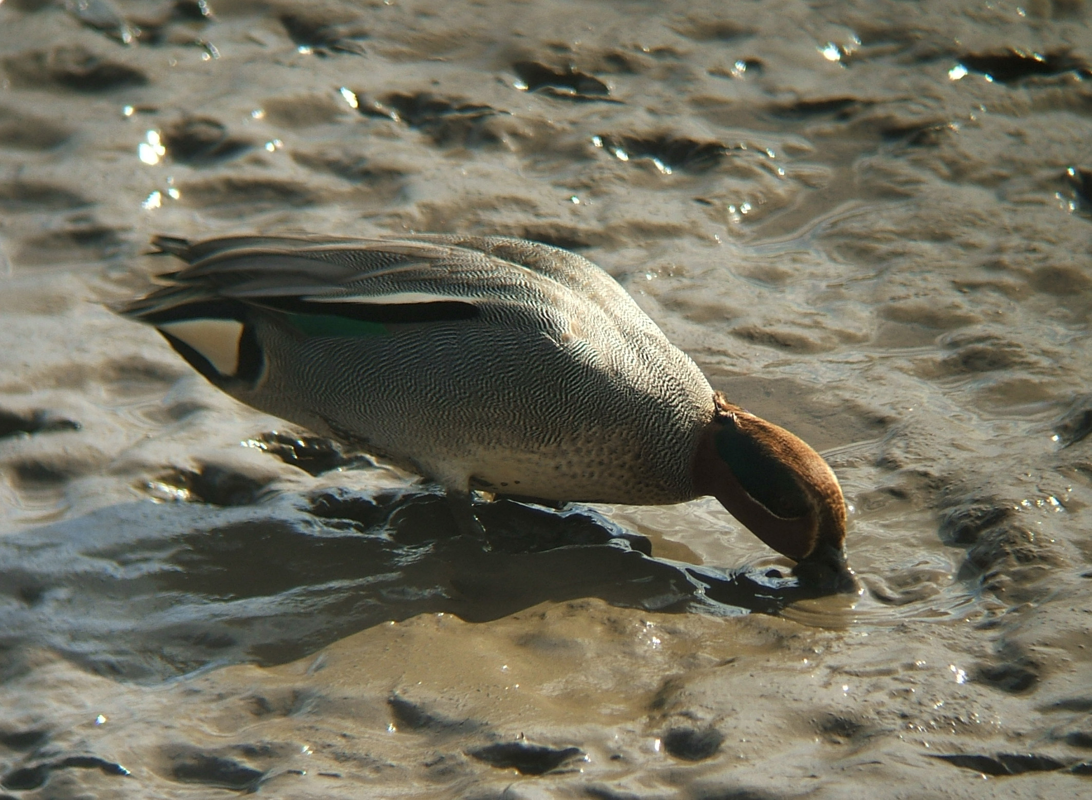 Anas crecca male. North bank of River Tyne, beside Newcastle Business Park, Northumberland, UK